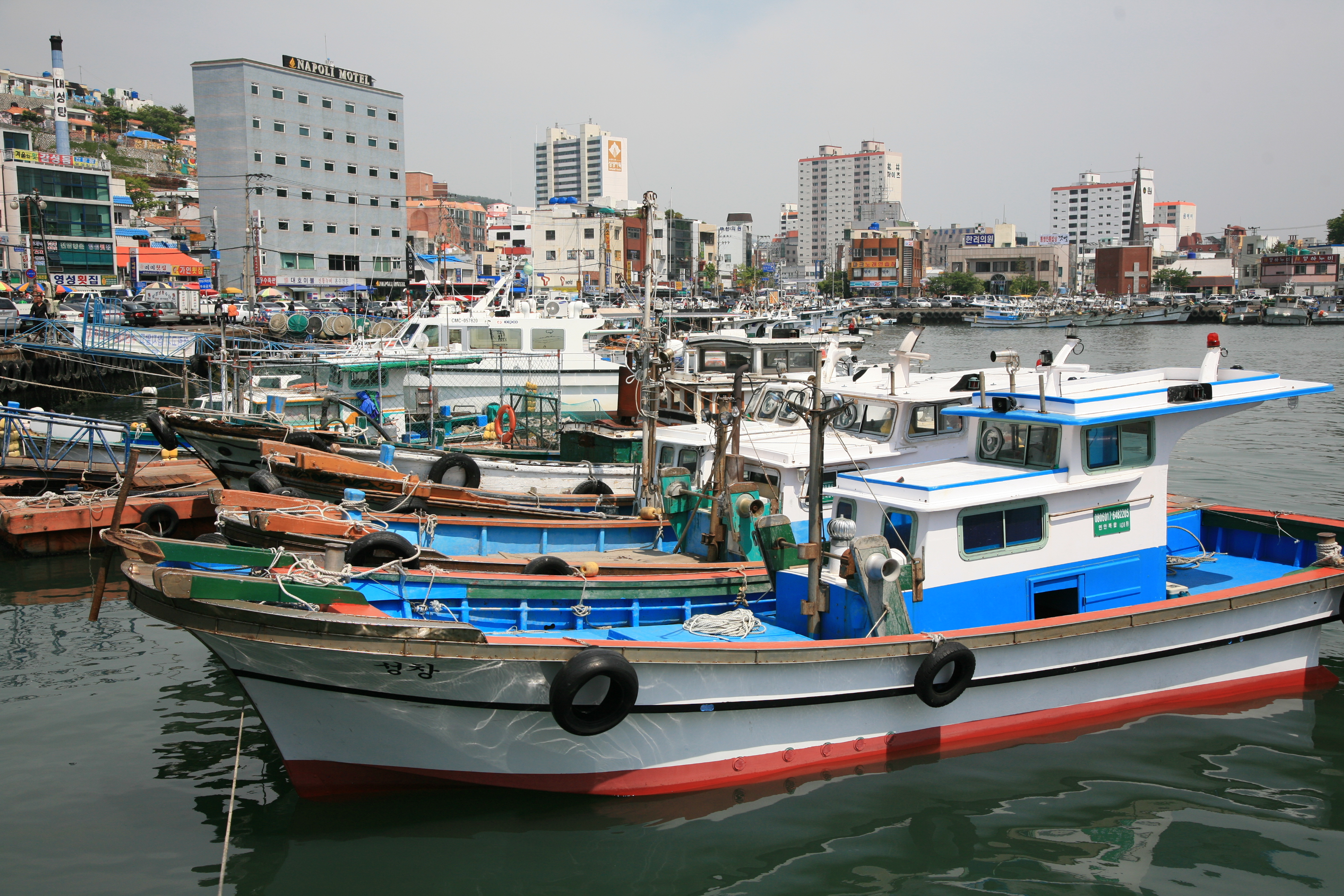 View of Tongyeong, South Gyeongsang province, South Korea